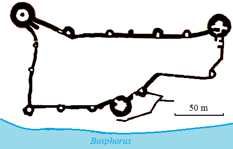 Map of Rumeli Hisarı (castle).